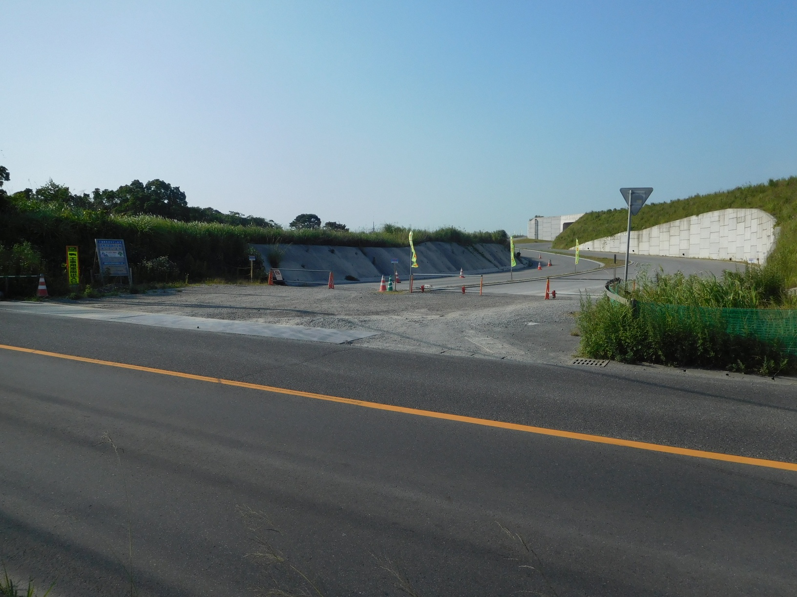 The Shibushi Interchange (under construction), Miyakonojo - Shibushi Road (Shibushi City, Kagoshima Prefecture, Japan)